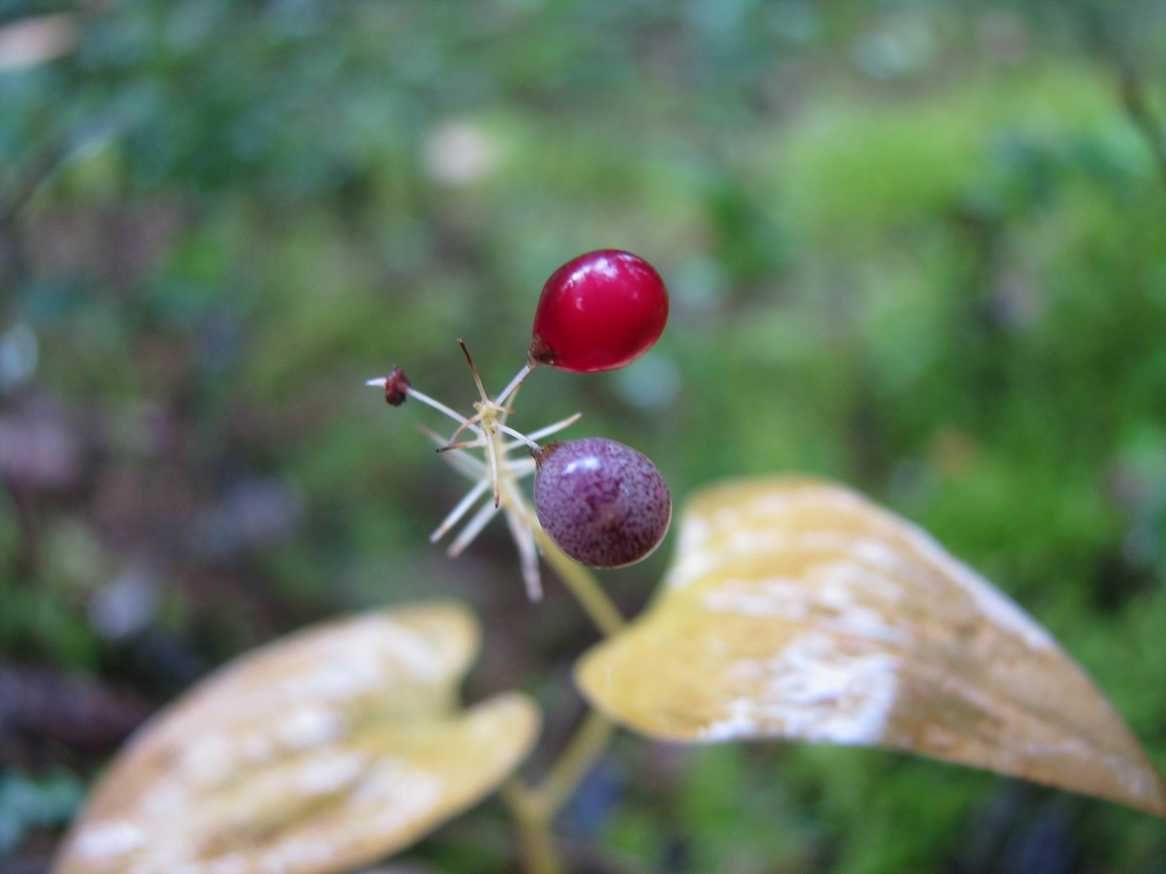 Maianthemum bifolium. Fruits. Savinsky District of Ivanovo Oblast, Russia